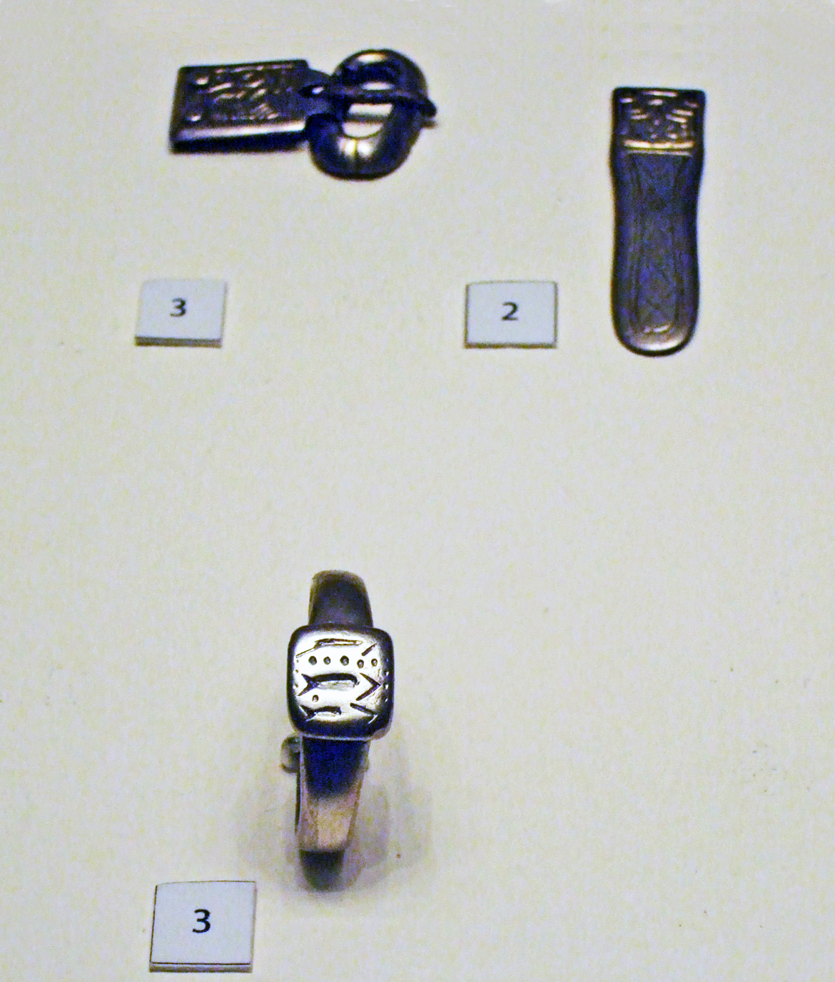 Germanic grave goods from the late Roman fortress of Keszthely-Fenékpuszta Zala County, Hungary Grave 16 of the horreum cemetery (below), last third of the 6th to the first third of the 7th century Burial of a man in extended supine position, with coffin vestiges and stone packing. 3. Finger ring (silver) with rectangular top plate depicting fishes. Grave 3 from the early Christian basilica (above), last third of the 6th century This robbed burial was located in the southern flanking aisle of the basilica. Because of its exceptional belt outfittings, it counts among the preeminent finds of this era in Pannonia. 2. Cast silver-gilt strap end with decoration in Animal Style II. 3. Cast silver-gilt buckle with decoration in Animal Style II. Photographed while on display from 22 August 2008 to 11 January 2009 in the exhibition "Die Langobarden. Das Ende der Völkerwanderung" at the Rheinisches LandesMuseum Bonn. On loan from the Balatoni Múzeum Keszthely.